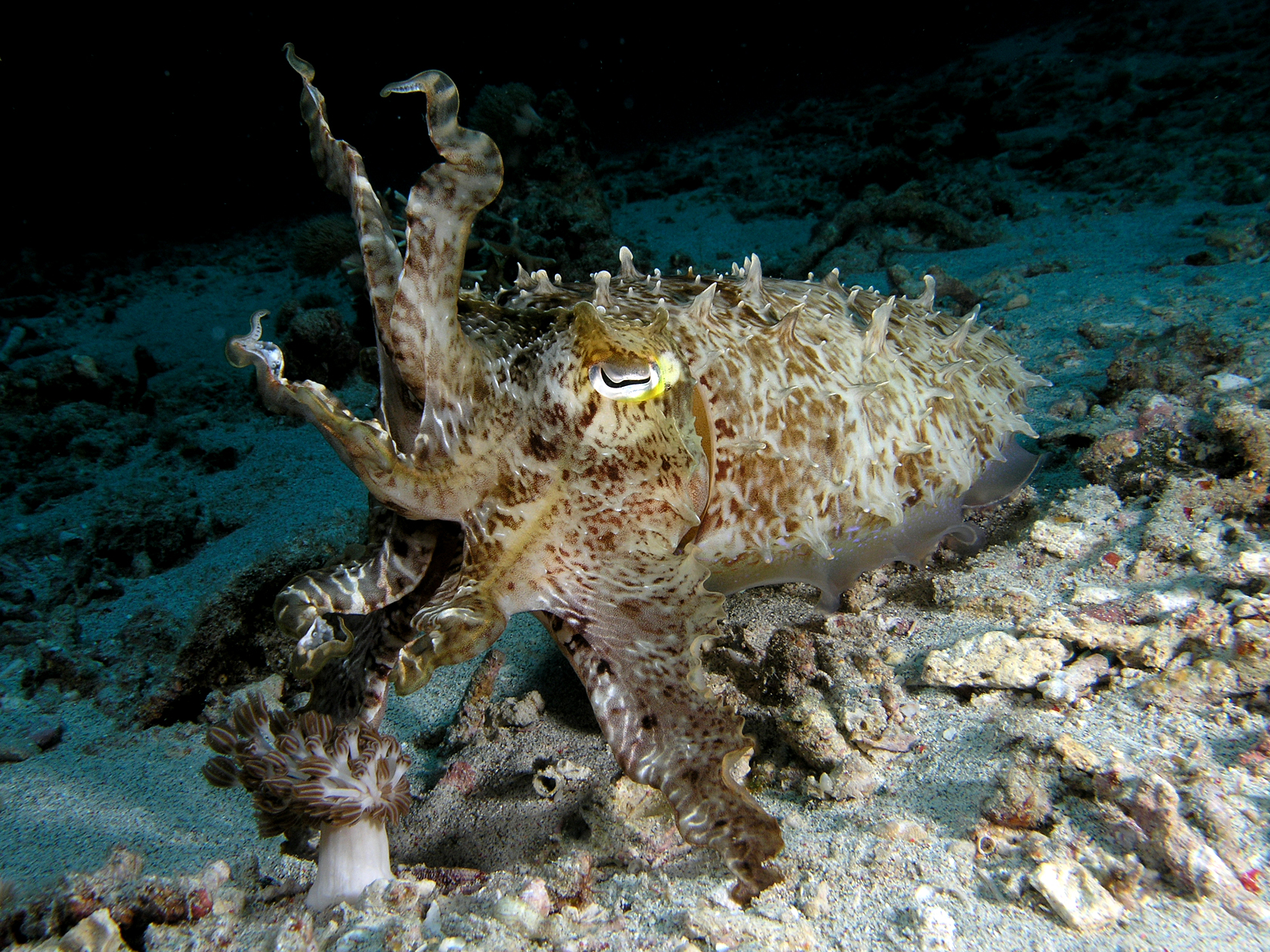 Cuttlefish in Komodo National Park